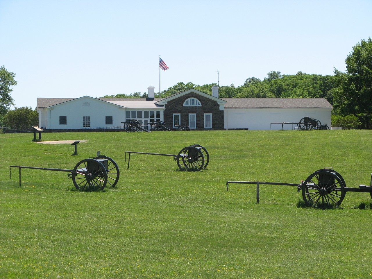 view back to the museum